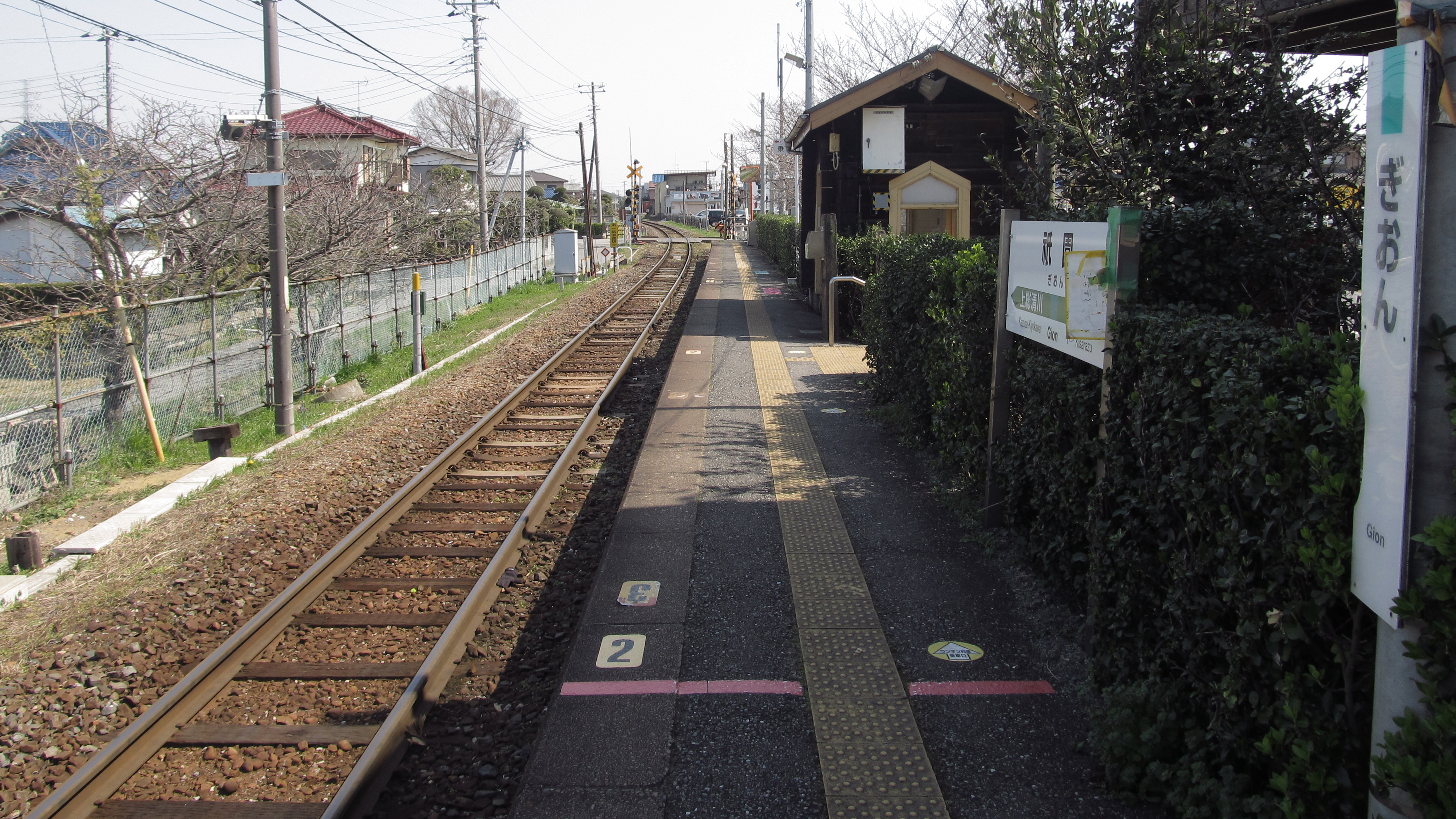 The platform at Gion Station on the Kururi Line in Kisarazu city, Chiba prefecture, Japan